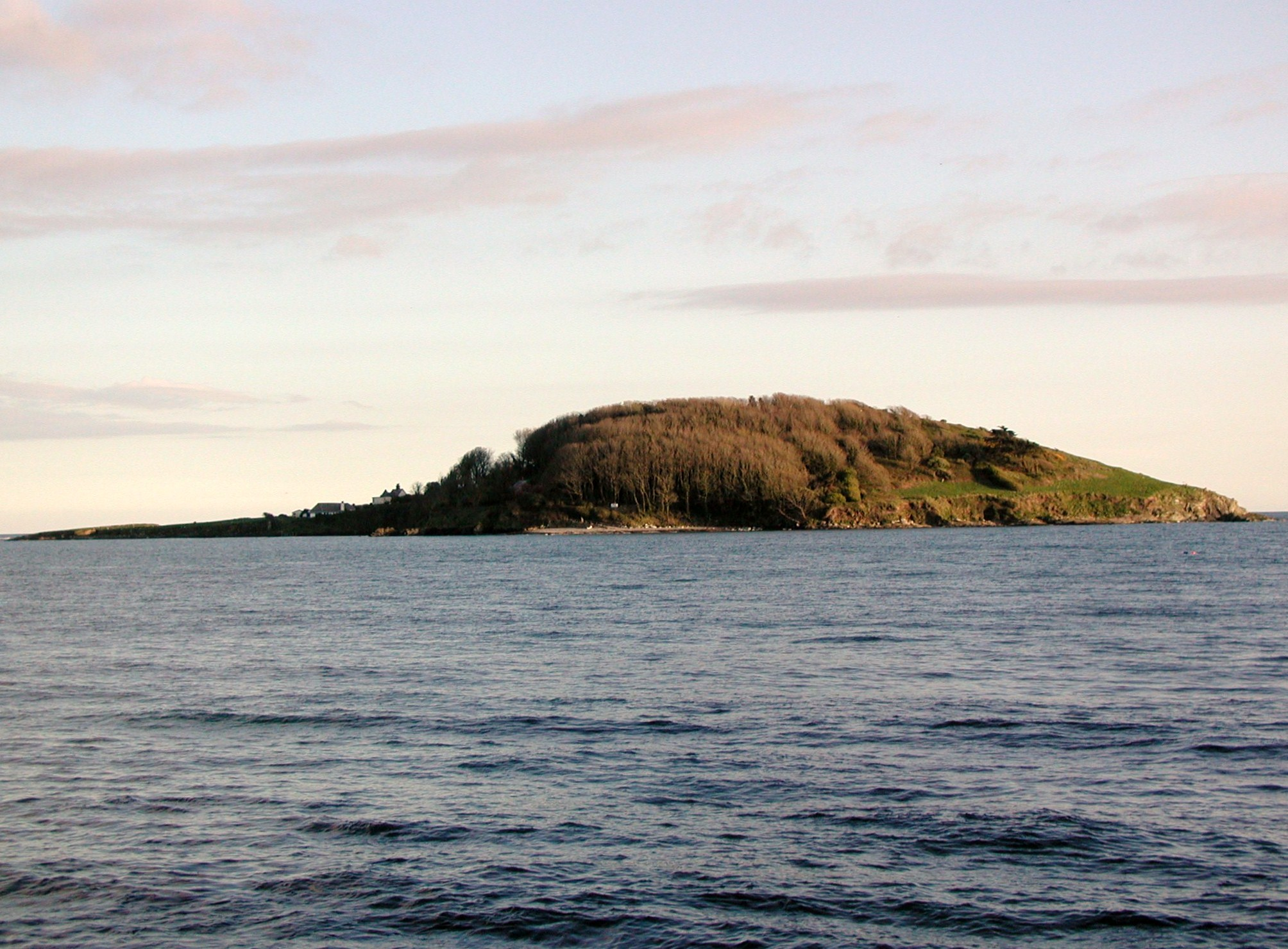 Author: User:kyren-lawrence Source: Own photo